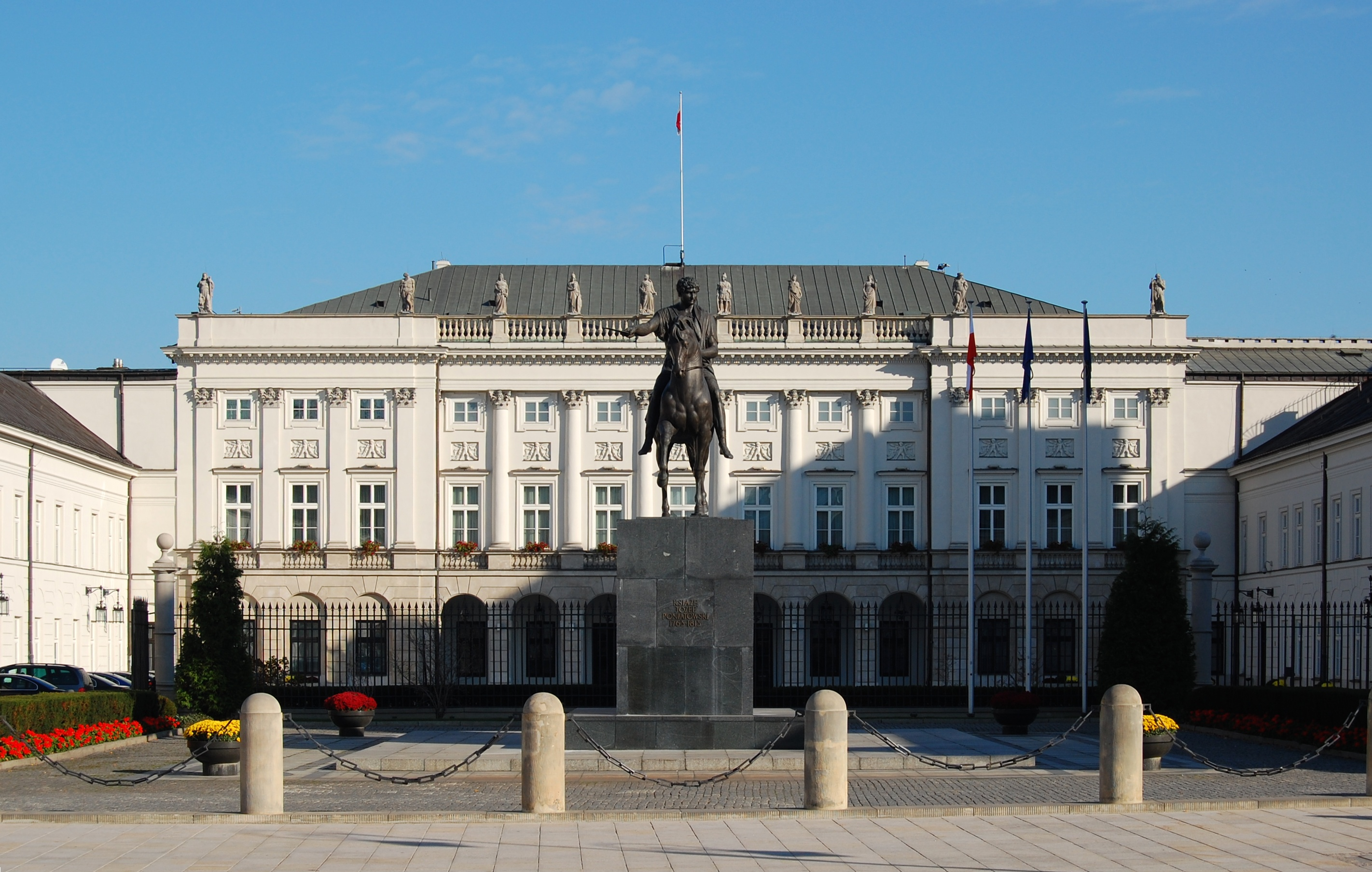 Presidential Palace, Warsaw, Poland.